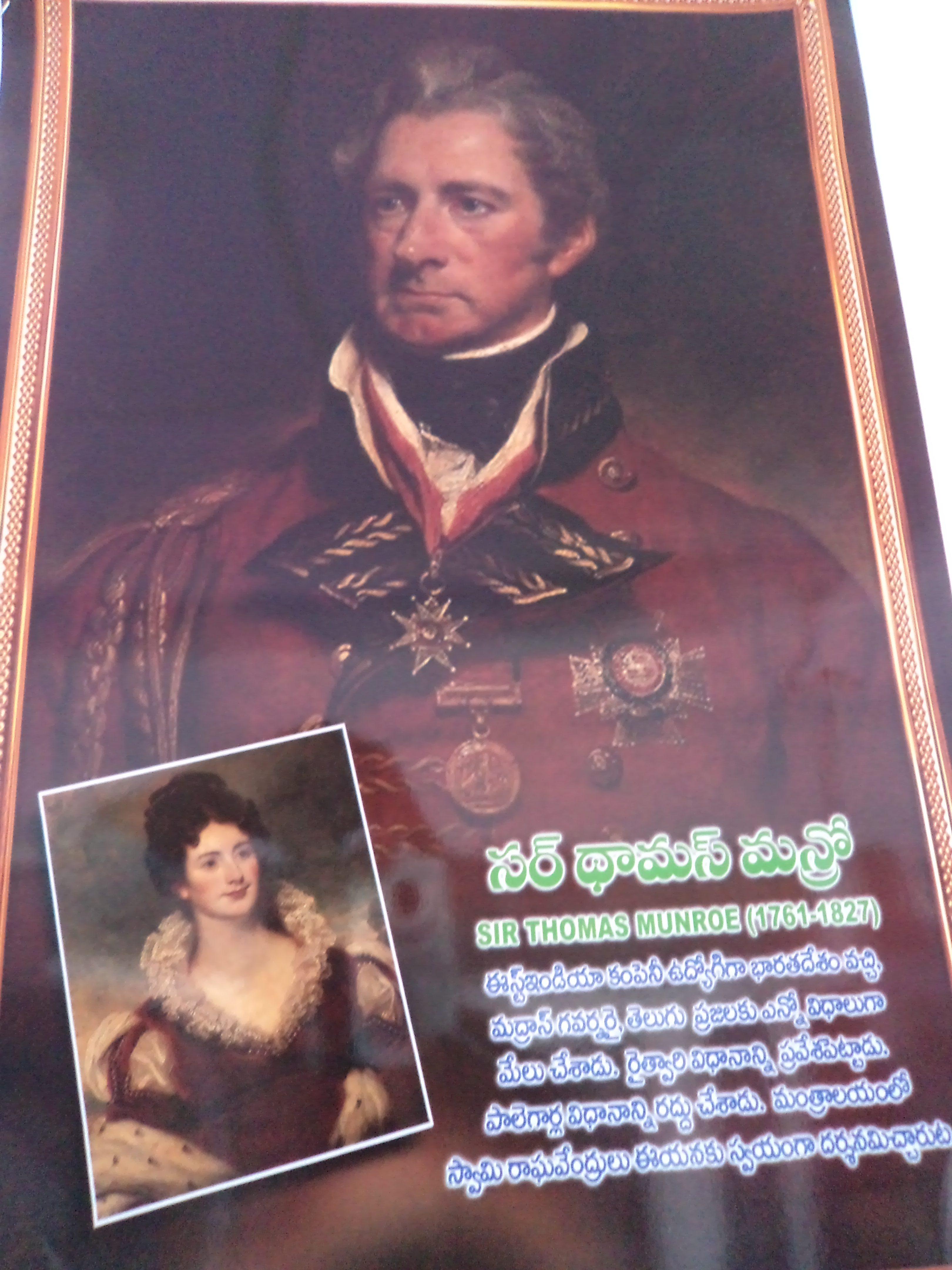 Portrait of Sir Thomas Manroe